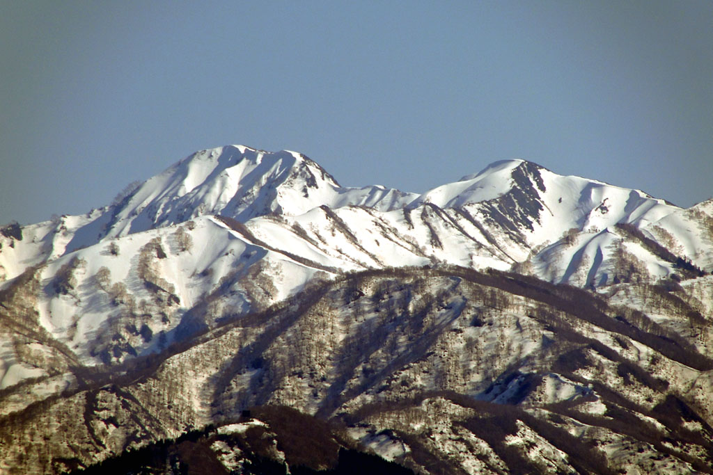 Mt. Etchu-komagatake as seen from the NNW in Toyama Prefecture, Japan.